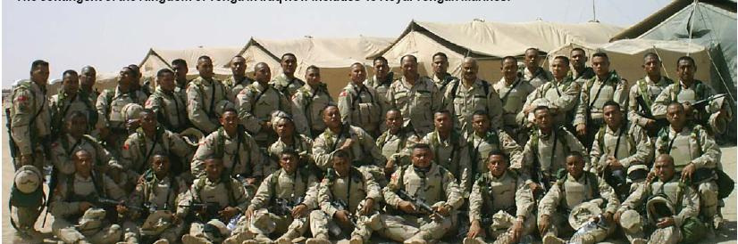 Royal Tongan Marines in Iraq June 2004.